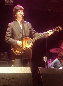 David Catlin-Birch of the Bootleg Beatles (playing Paul McCartney). Live at "Marvellous Festivals", Wellington Country Park, Reading, Berkshire UK.